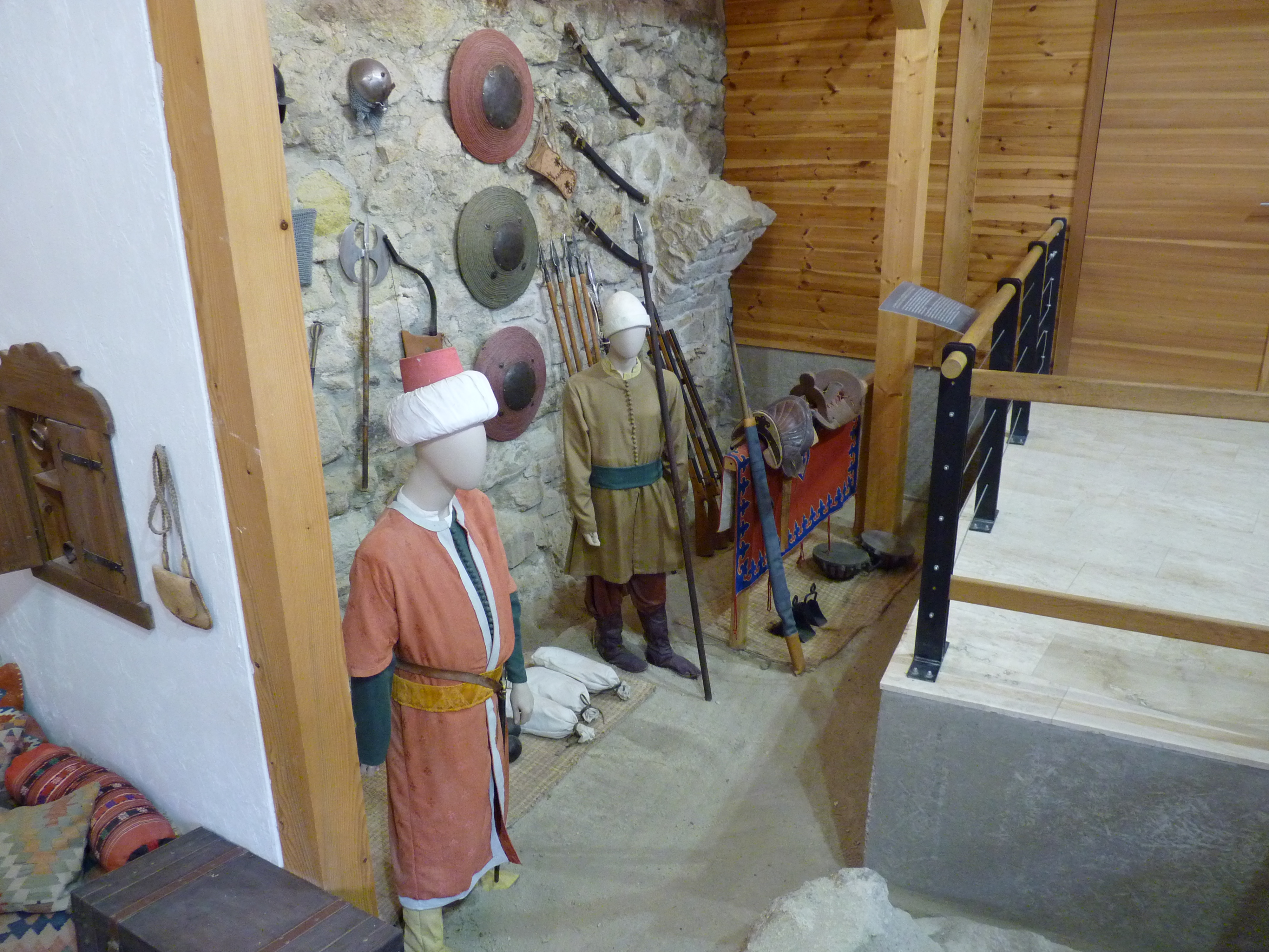 Castle of Sirok exhibition